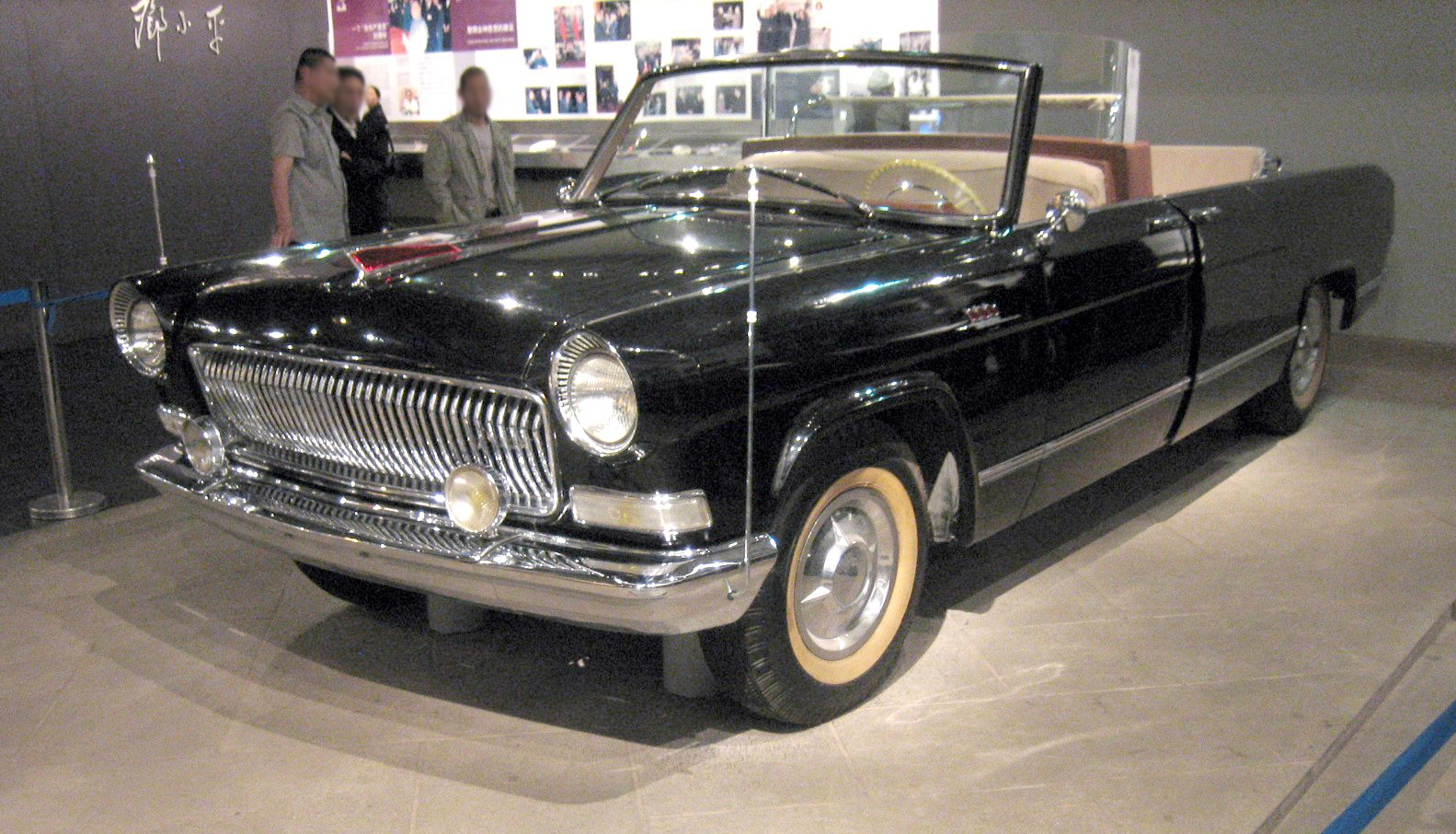 Hongqi CA770 Cabriolet, seen at the museum in Guang'an, birthplace of Deng Xiaoping. He rode in this car during the celebrations for the 35th anniversary of the Chinese People's Republic.